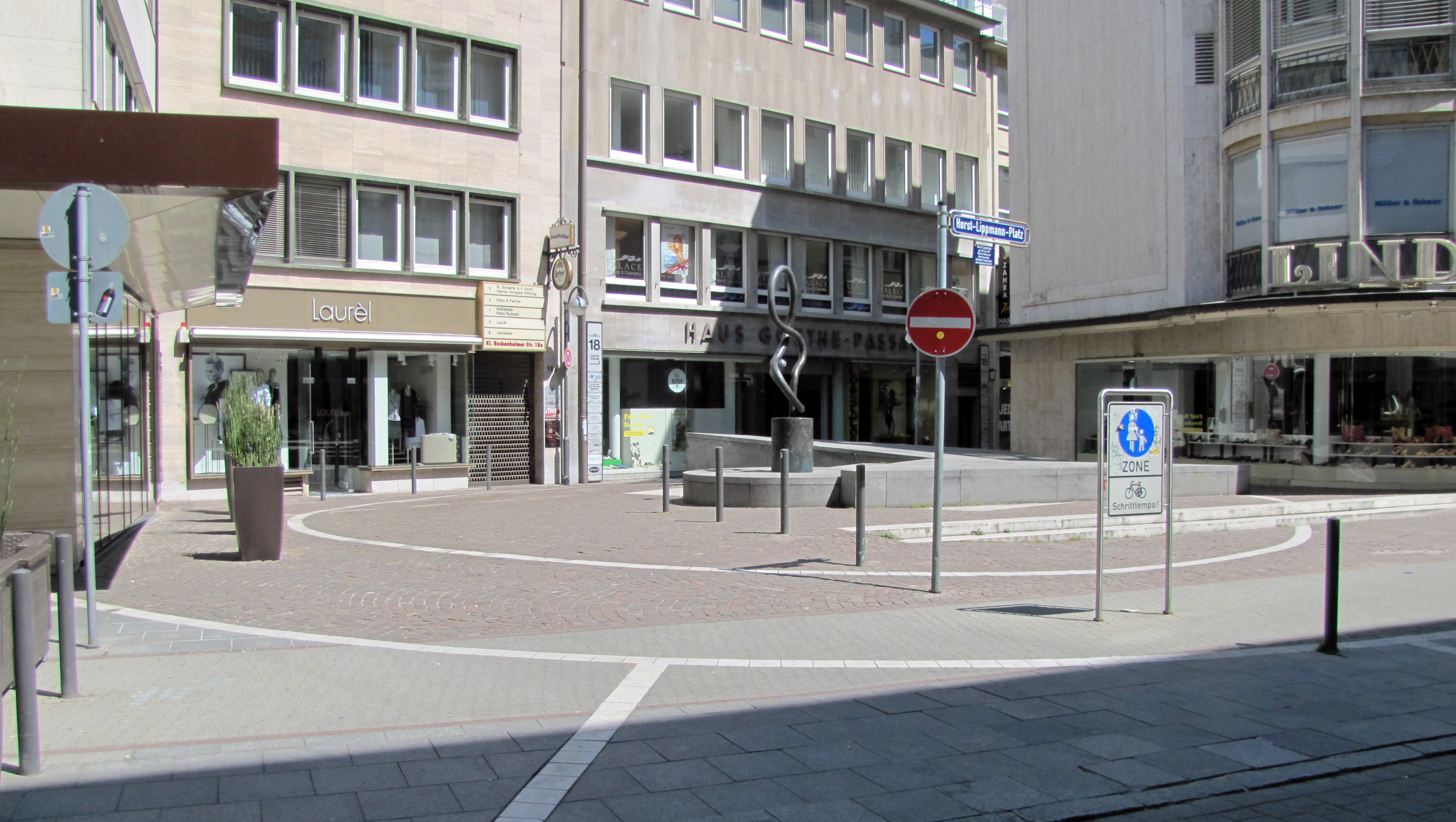 The "Horst-Lippmann-Platz", between Kleine Bockenheimer Strasse and Goethestrasse in Frankfurt-Innenstadt, Hesse, Germany.